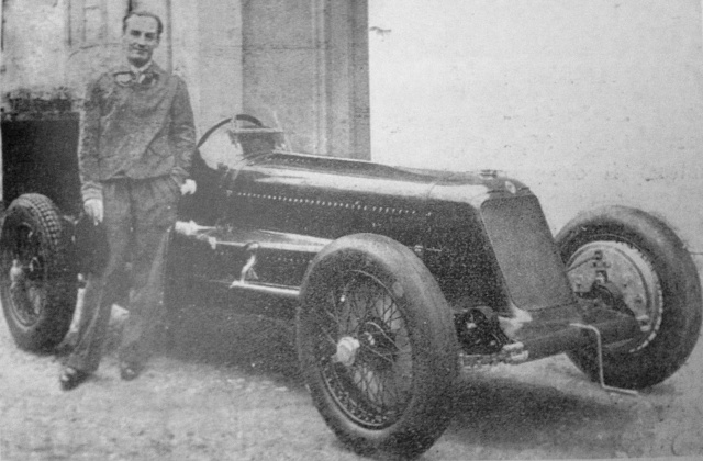 1934 Maserati 6C 34 s/n 3023, one of five 6C 34 made. Here in 1936 with Gino Rovere who was team leader of the Scuderia Subalpina team. It was used by the factory team (Nuvolari) 1934 and 1935.